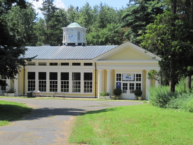 Jay Heritage Center 210 Boston Post Road Rye, NY 10580